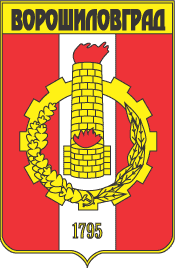 Former coat of arms of Luhansk.